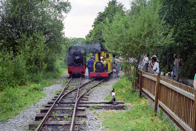 Brockham station, Amberley Chalk Pits Museum, 1993. The locomotives are 'Barbouilleur', left, and 'Polar Bear'. This was the railway 'Gala Weekend' (exact date undetermined) with many predominently diesel locomotives started up and dodging around.